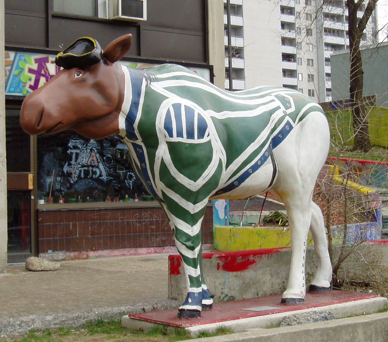 Taken by SimonP in April 2005